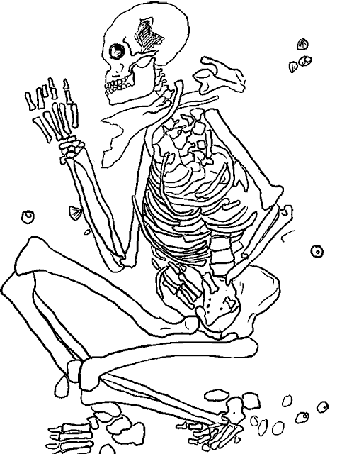 Burial of a capsian man. Capsian is a culture from the mesolithic and Neolithic of Maghreb